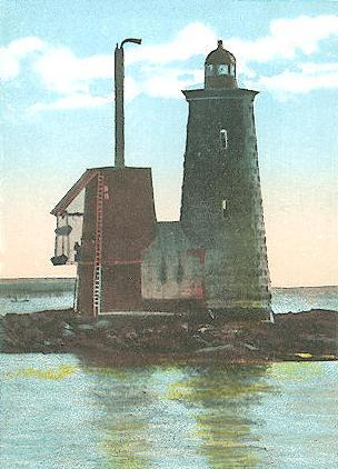 Whaleback Ledge Lighthouse, built in 1872, Kittery, ME; from a c. 1920 postcard. Standing 50 feet tall, the tower was built in 1872.